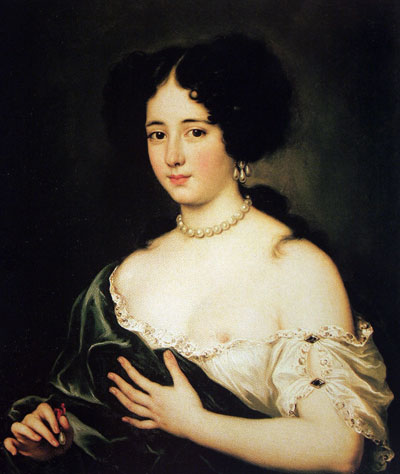 Portrait of Marie Mancini, niece of Mazarin